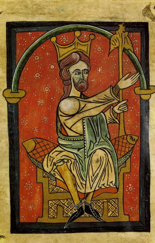 Ordoño II of León